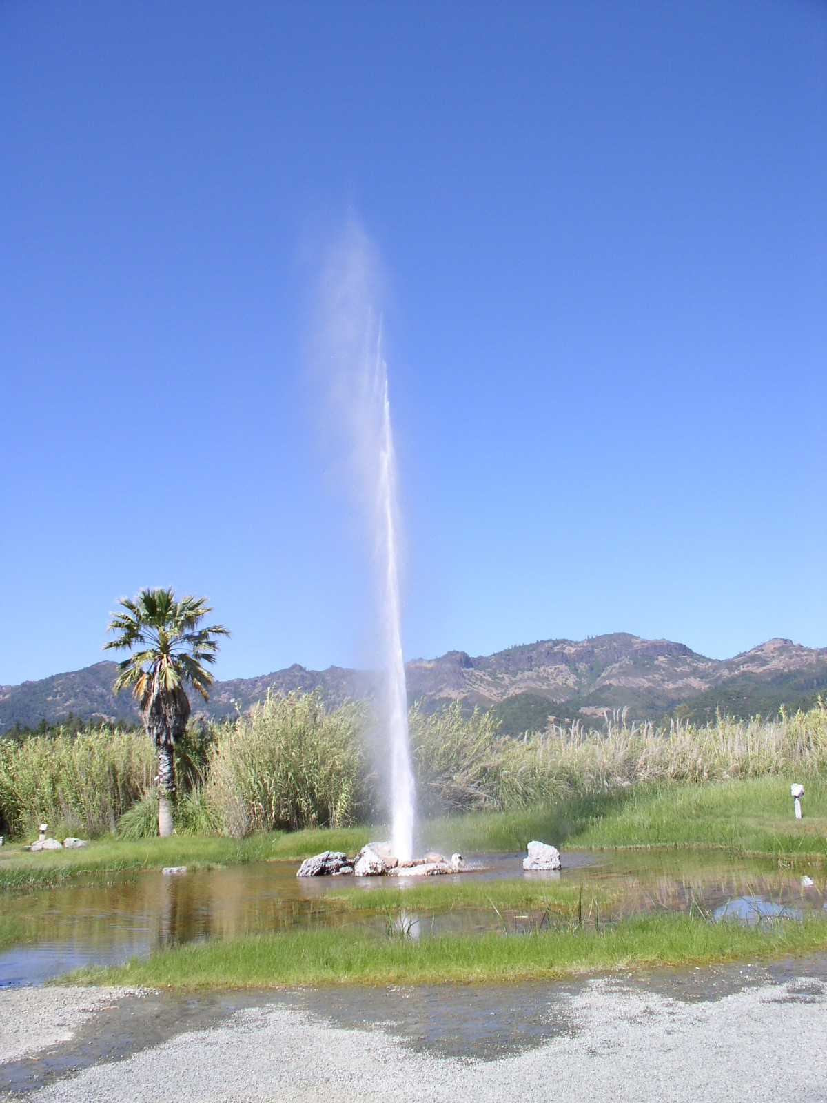 Old Faithful Geyser, Calistoga, California, USA.